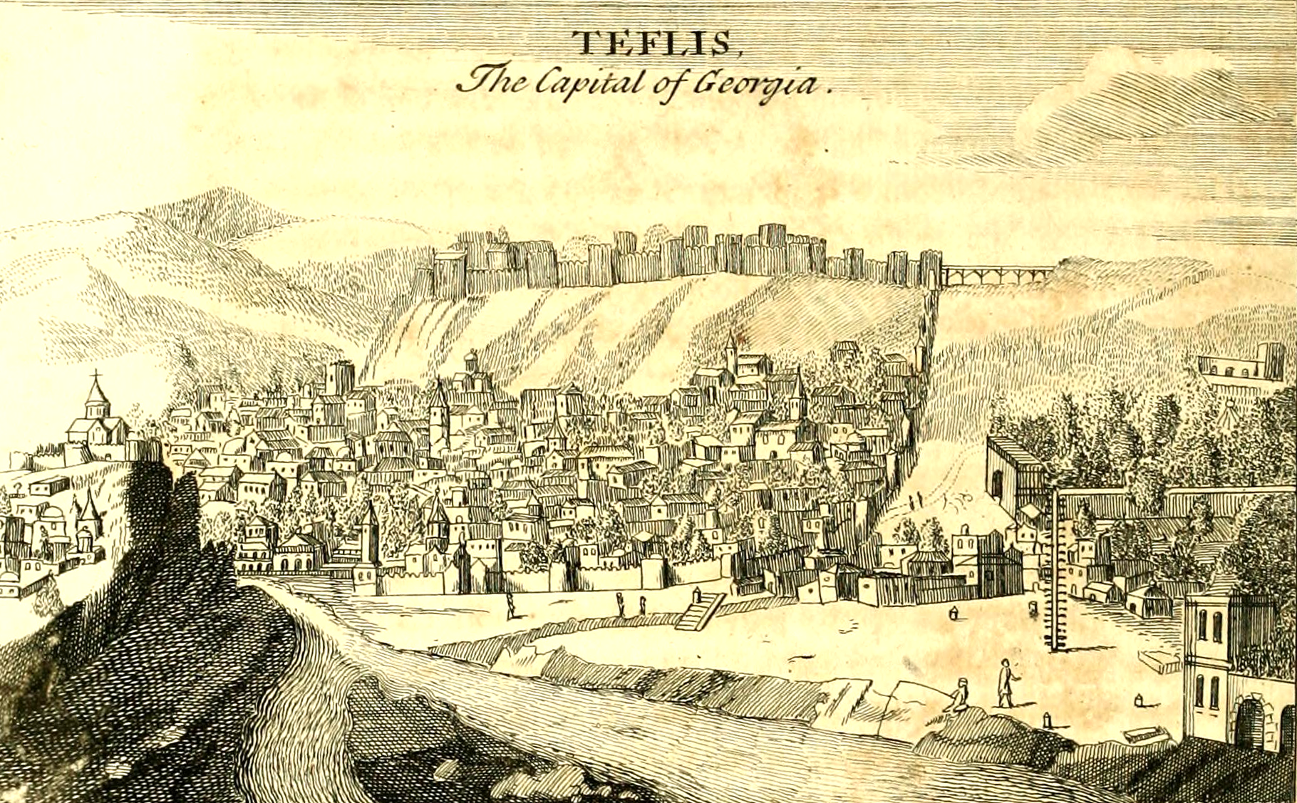 Tbilisi